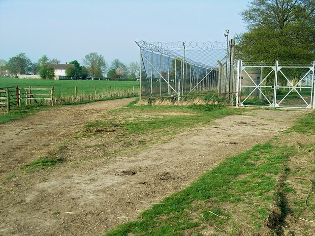 R.A.F. Bampton Castle Looking across the corner of the fenced area towards White Lodge. The concrete building inside the gate is a pillbox.